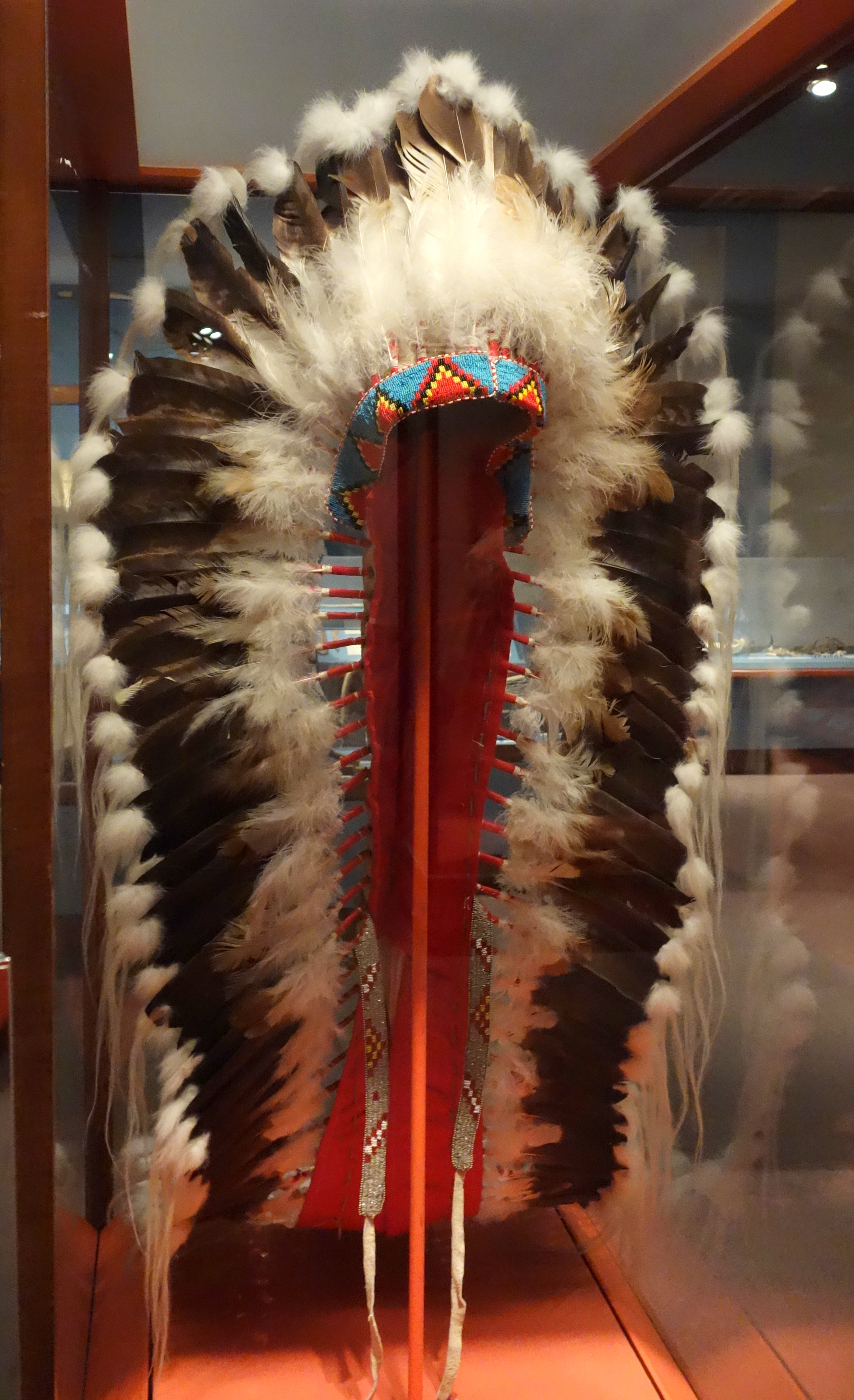 Exhibit in the Glenbow Museum, 130 9th Ave S.E., Calgary, Alberta, Canada. This work is old enough so that it is in the public domain.